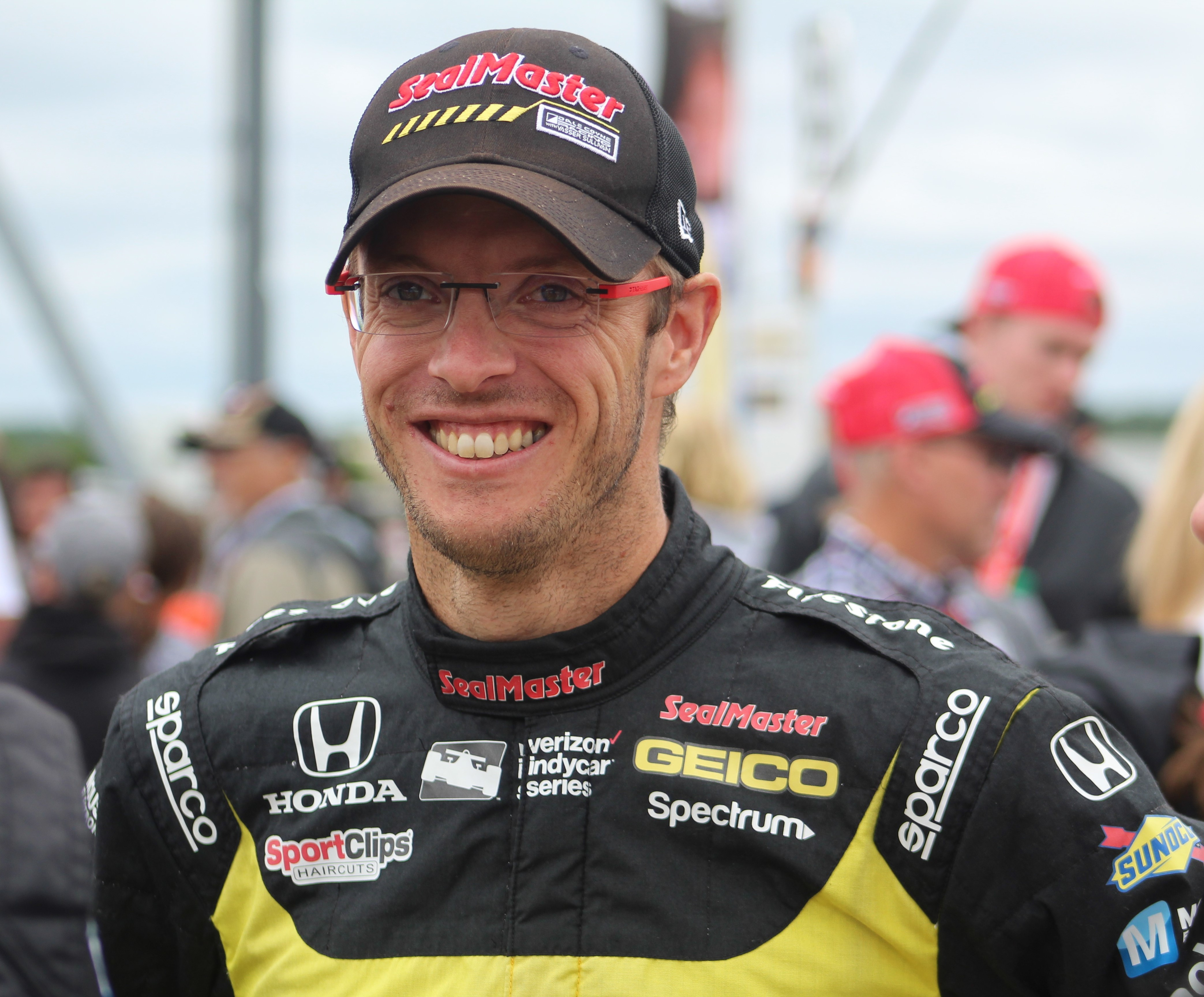 2018 ABC Supply 500 IndyCar race at Pocono Raceway